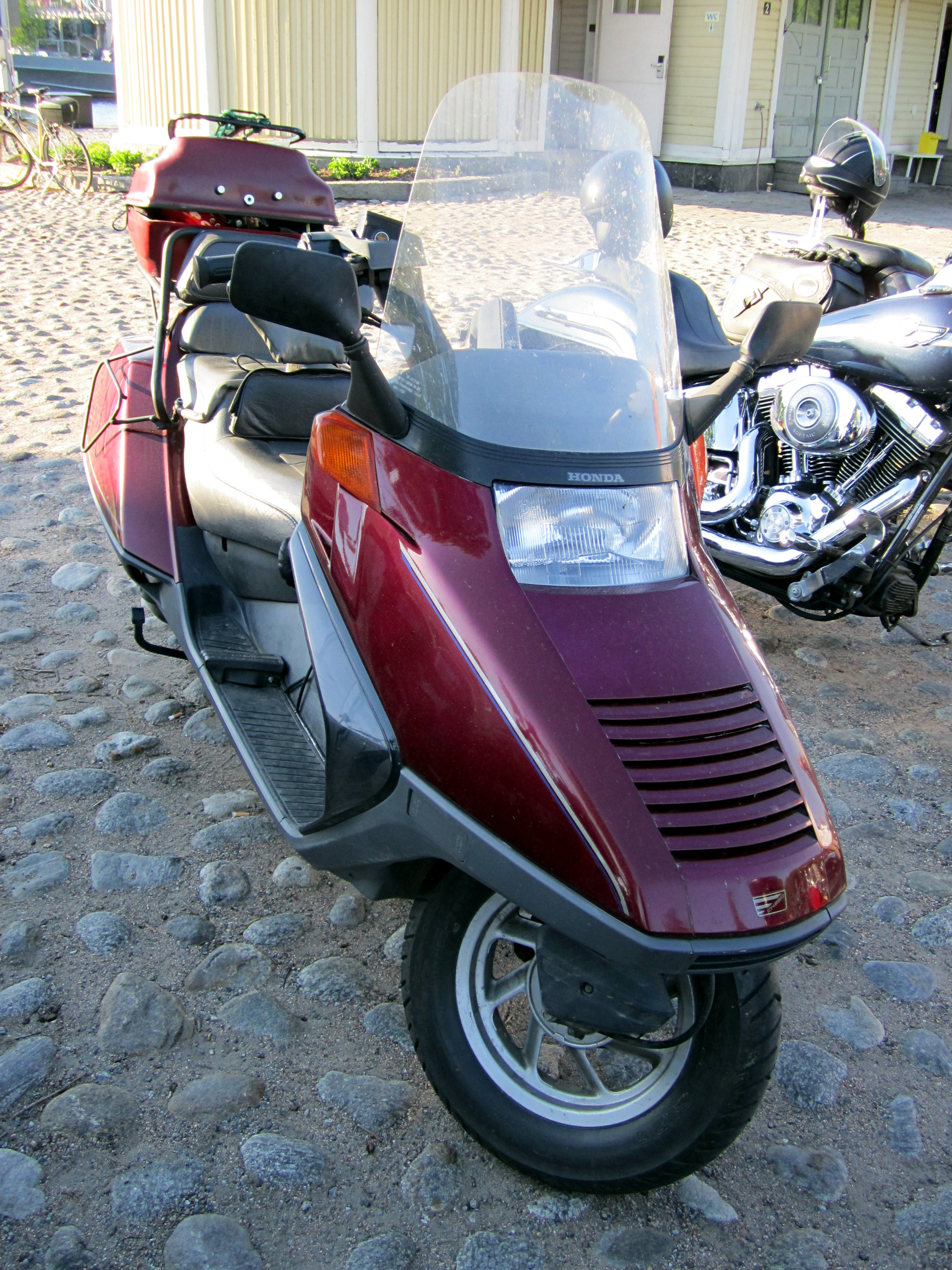 Japanese made Honda Helix CN250 motor scooter, also known as "Spazio" or "Fusion" on selected markets. Helix is the progenitor of the later maxi scooter line of scooters.